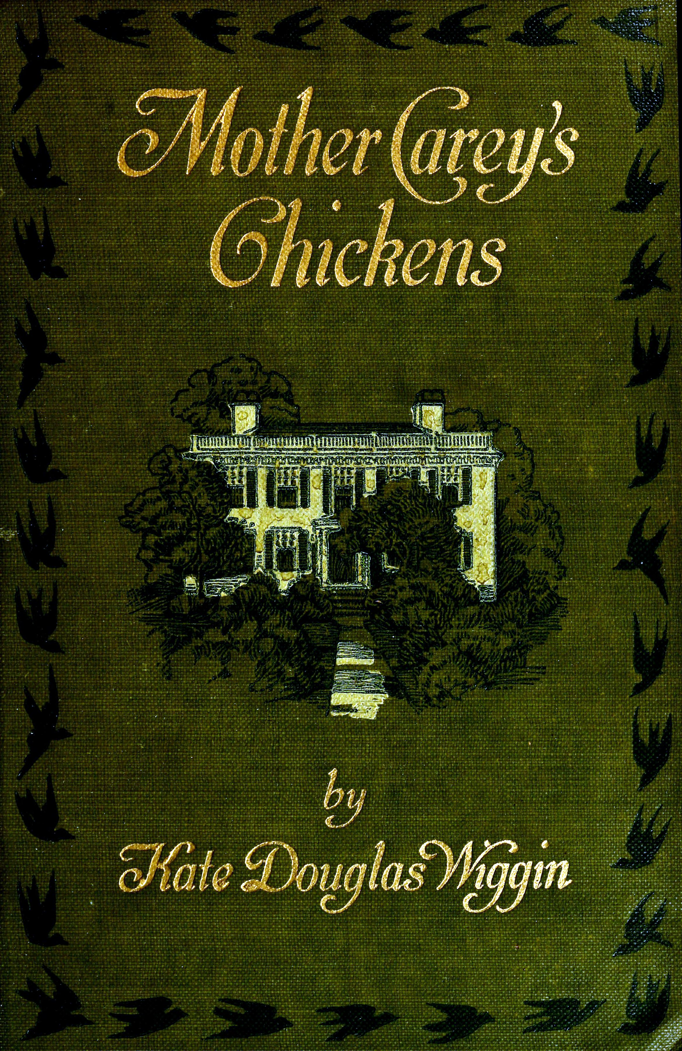 Cover page--from scan of book "Mother Carey's chickens" (1911) by Kate Douglas Wiggin. Illustrator / decorator unknown. Text: Mother Carey's Chickens----by Kate Douglas Wiggin